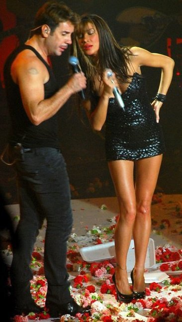 Giorgos Mazonakis